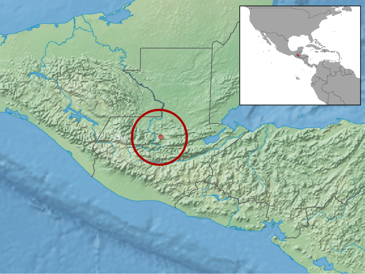 geographic distribution of Myotis cobanensis